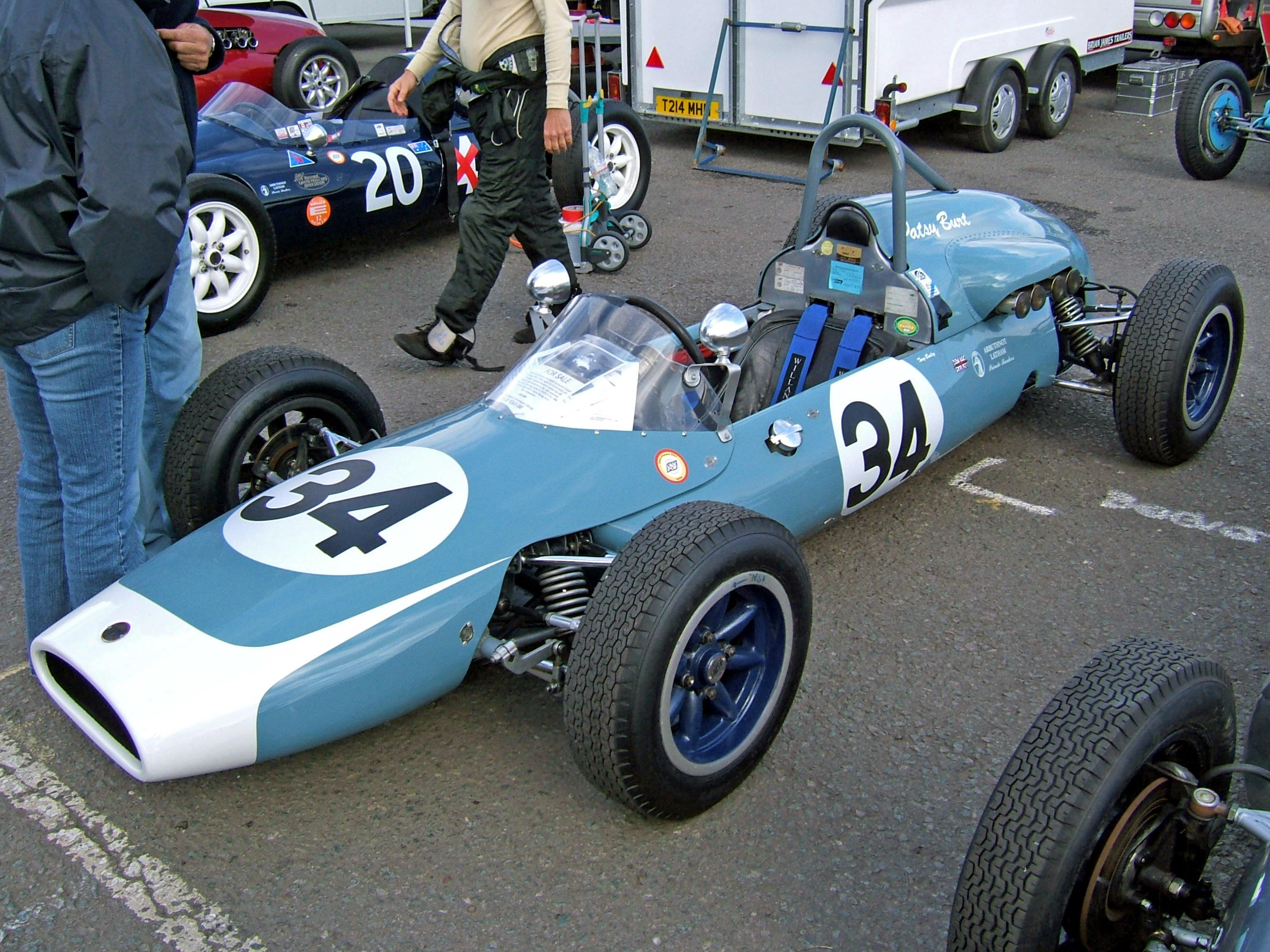 A Cooper T59 formerly owned by Britain's most successful female racing driver, Patsy Burt (1928 - 2001). For sale in the paddock of the VSCC SeeRed race meeting, Donington Park, September 2007. (£80,000, since you ask.)